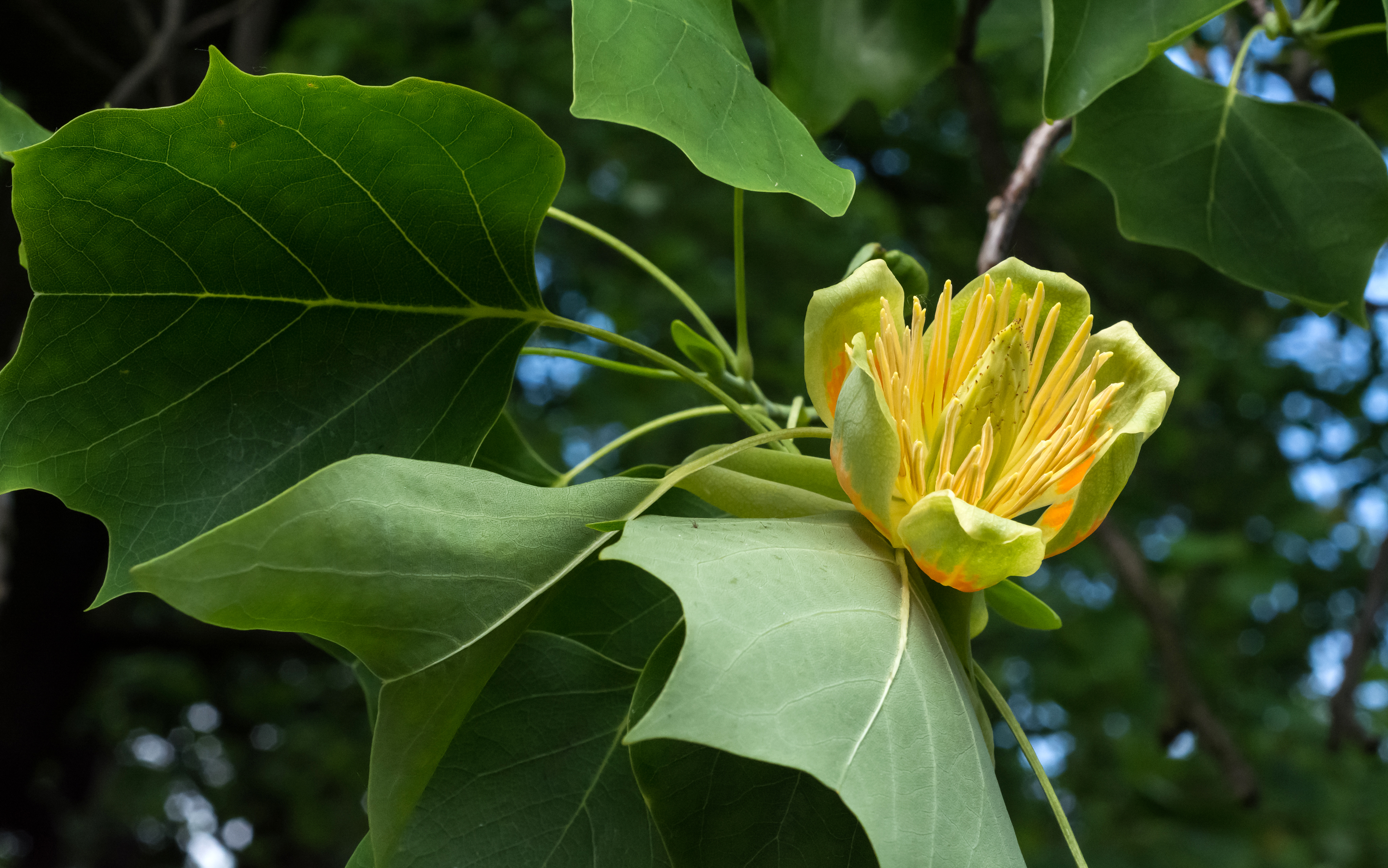 Liriodendron tulipifera flower in Kłodzko